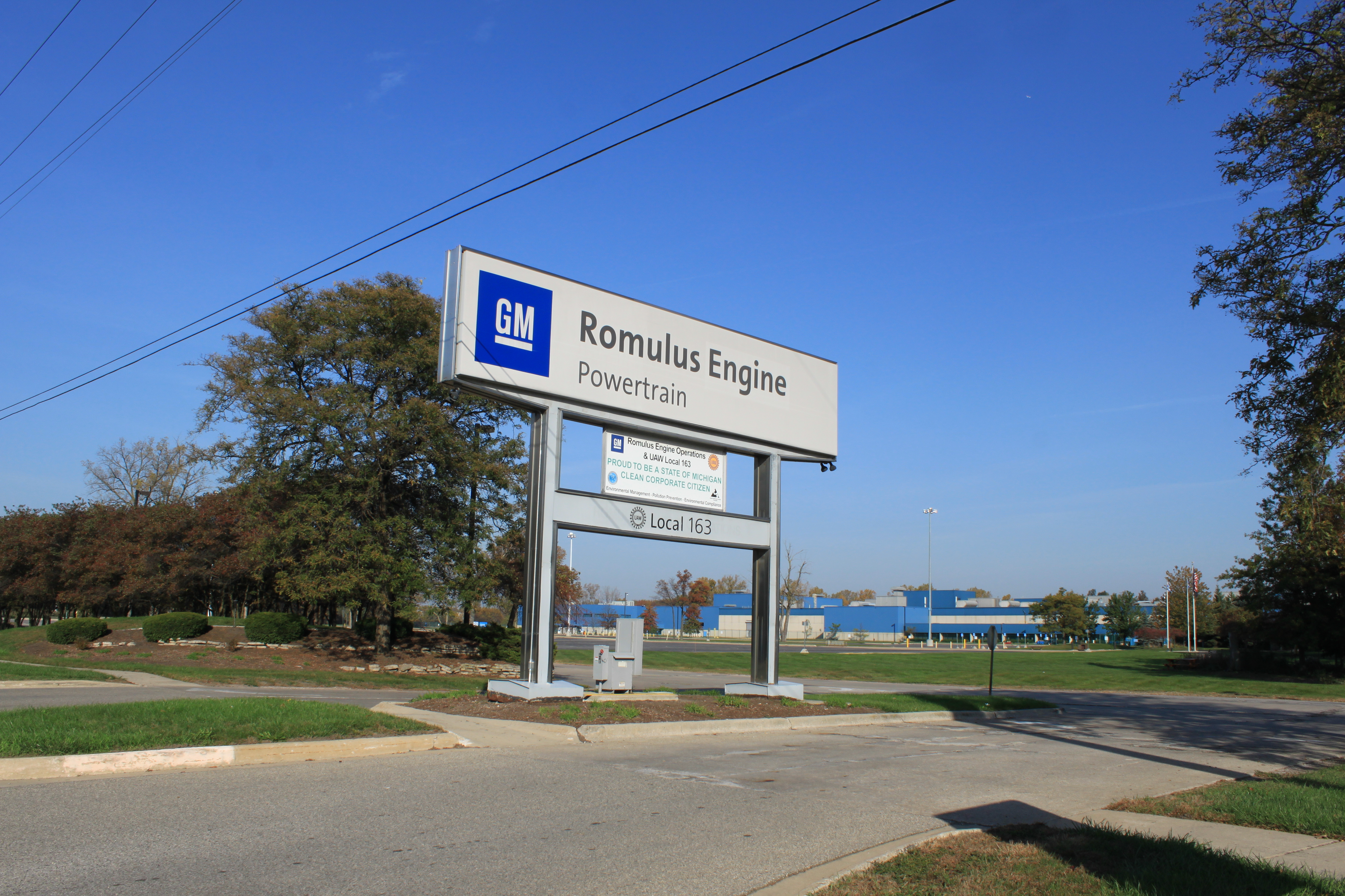 General Motors Romulus Engine plant entrance, Ecorse Road, Romulus, Michigan